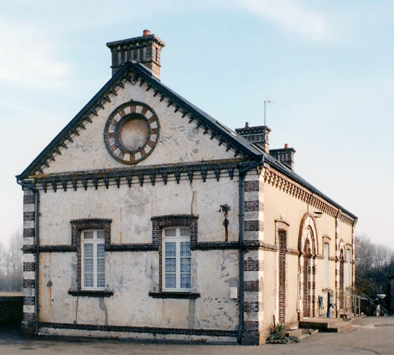 Building in Normandel, Orne, France Photography by User: MrX